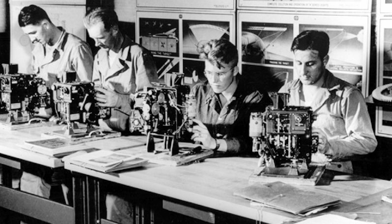 Lowry Field - Bombsight Maintenene training